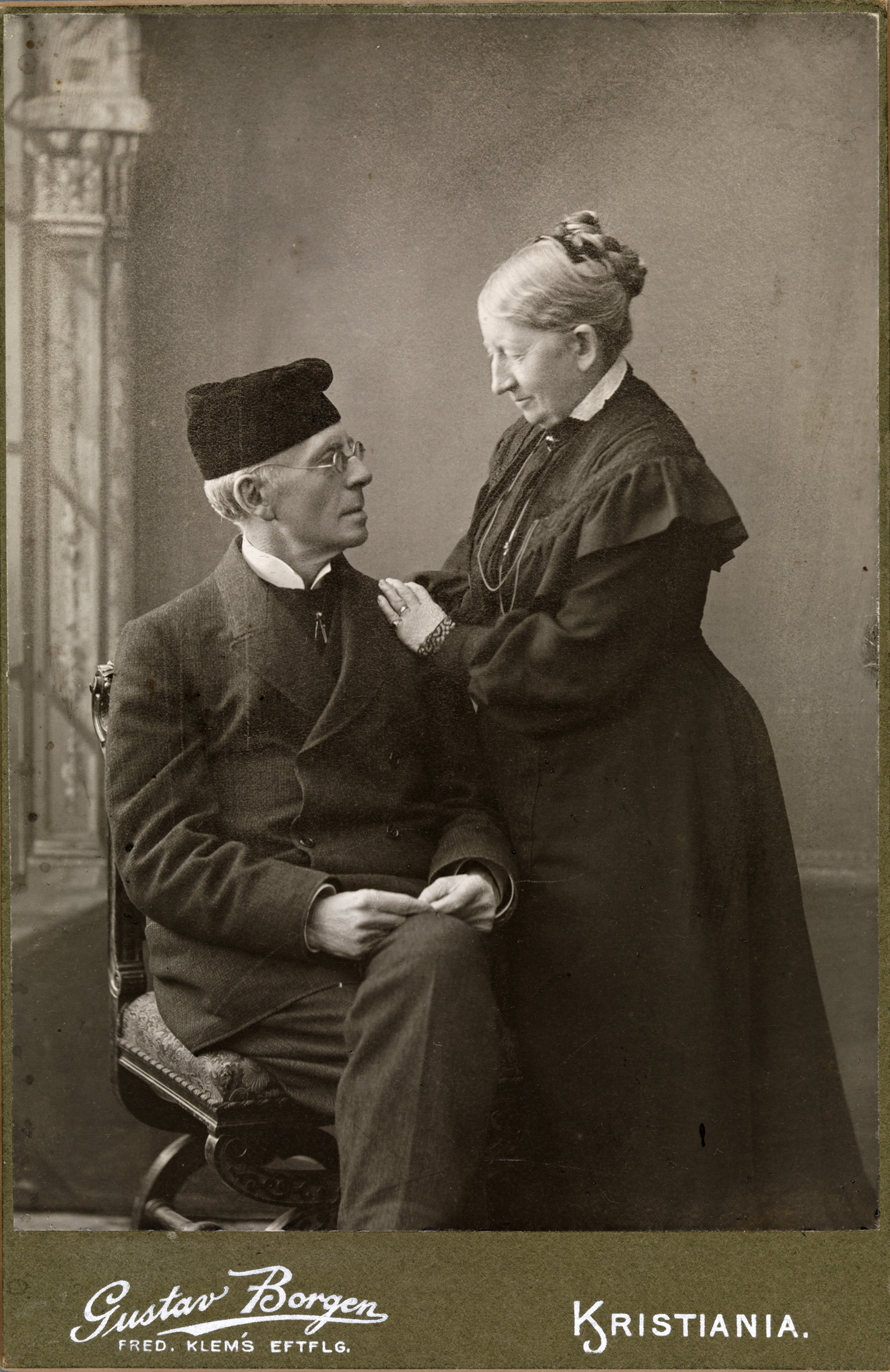 Tittel / Title: Jonas og Thomasine Lie, 1904 Motiv / Motif: Kabinettkort. Dato / Date: 1904 Fotograf / Photographer: Gustav Borgen (Kristiania) Sted / Place: Oslo Eier / Owner Institution: Nasjonalbiblioteket / National Library of Norway Lenke / Link: Bildesignatur / Image Number: blds_02920